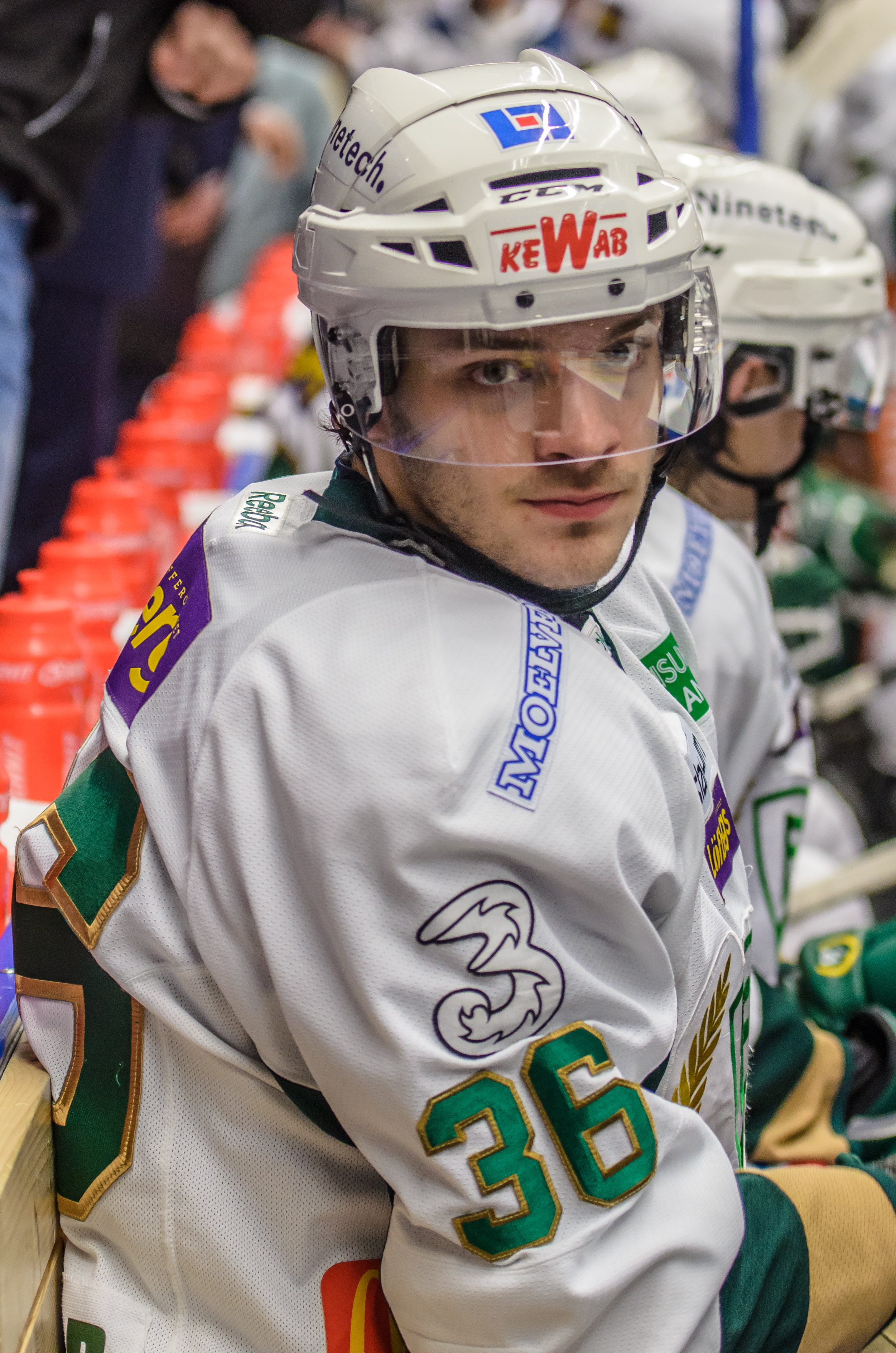 Ice hockey player Charles Bertrand in Färjestad BK.